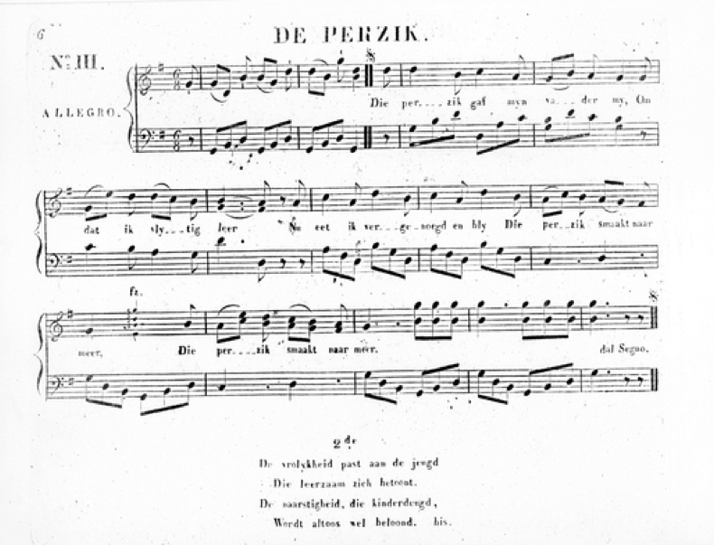 Hieronymus van Alphen (1746-1803), "Twaalf stukjes uit de Gedichtjes voor kinderen" (Leiden, 1824). Composer unknown. From this songbook the Dutch children's song 'De perzik'.